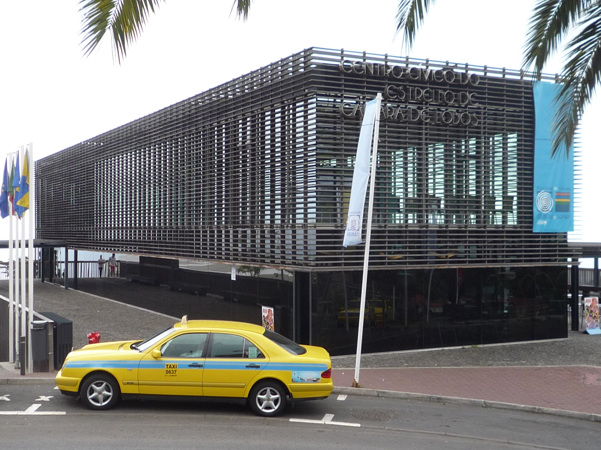 The Centro Cívico do Estreito de Câmara de Lobos at 32°40′15″N 16°58′48″W / 32.670719°N 16.979971°W in Estreito de Câmara de Lobos, Madeira.